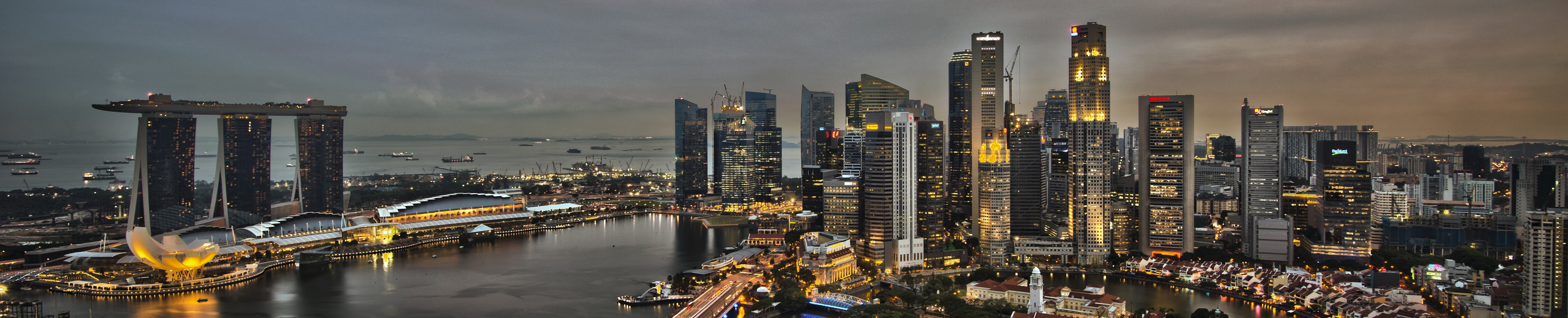 Skyline of Boat Quay in Singapore. The cluster of skyscrapers in the right half of the photograph constitutes the Central Business District of Singapore, and include the following buildings: UOB Plaza OUB Centre Supreme Court City Hall The buildings on the left half of the image include: Marina Bay Sands Esplanade